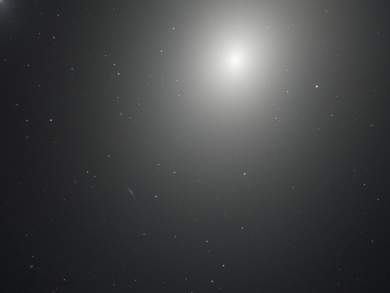 Located in the constellation Virgo, galaxy Messier 86 (M86) is situated near the heart of the large Virgo cluster of galaxies. Astronomers classify it either an elliptical or a lenticular galaxy (a cross between an elliptical and spiral). This Hubble image is a combination of exposures taken in near-infrared and visible light using the Wide Field and Planetary Camera 2 and the Advanced Camera for Surveys. While showcasing only about half the galaxy, it includes the bright central nucleus and a portion of its immense surrounding halo. The image also reveals some of M86’s estimated 3,800 globular clusters, seen as bright specks of light. The majority of the galaxies in the Virgo cluster are receding from the Milky Way. M86, however, is moving toward our galaxy. This is because M86 is located on the far side of the Virgo cluster from us and is moving toward the center of the cluster. For more information, visit: Credit: NASA, ESA, STScI, S. Faber (University of California, Santa Cruz), and P. Côté (Dominion Astrophysical Observatory)